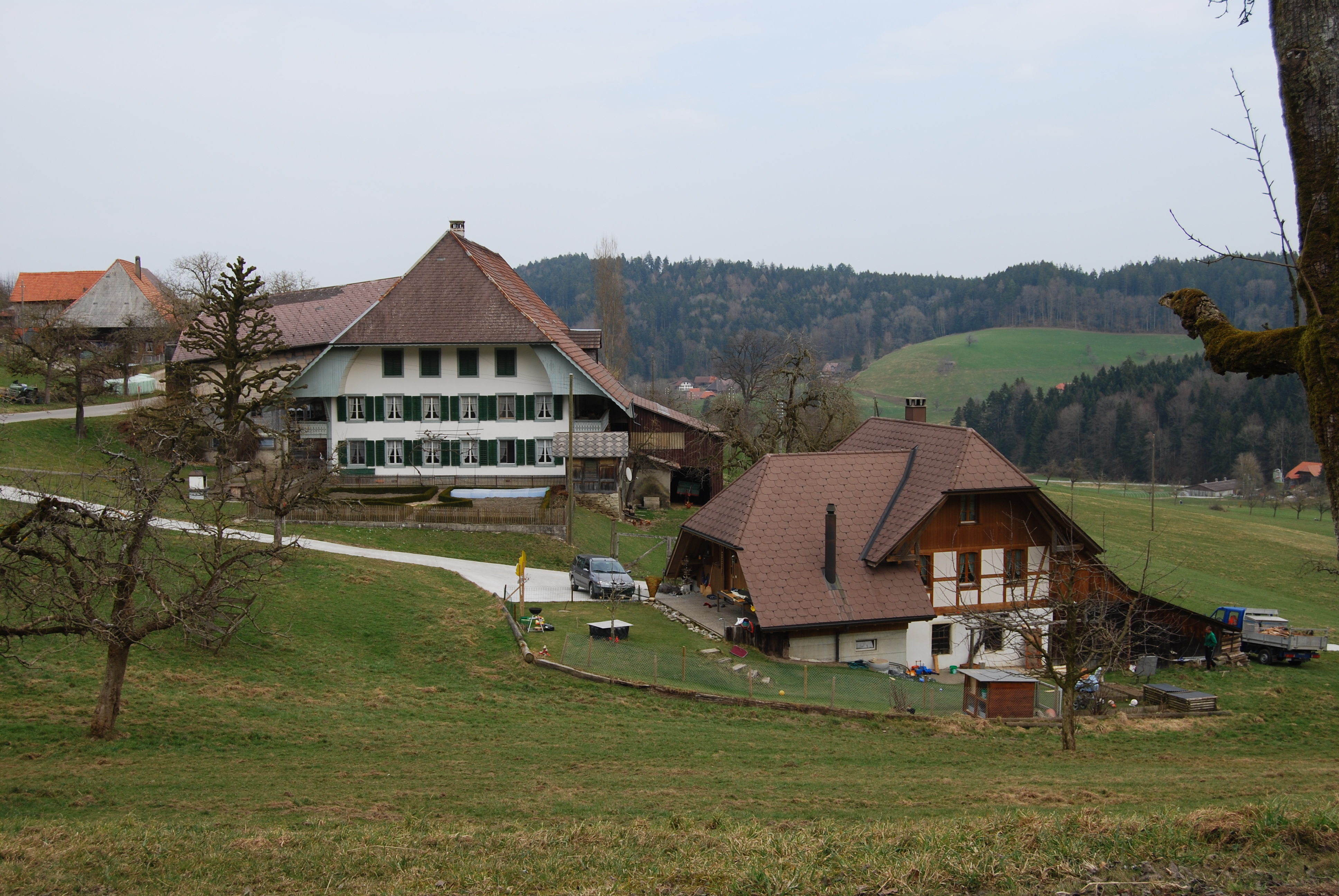 Reisiswil, canton of Bern, SwitzerlandEsperanto: Reisiswil, Kantono Berno, Svislando